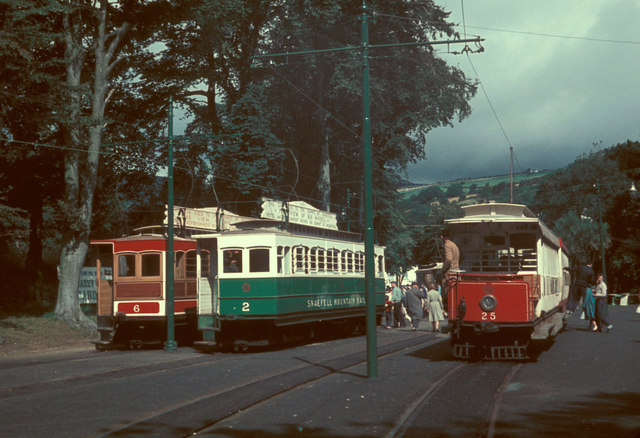 Laxey station Cars Nos 6 and 2 of the Snaefell Mountain Railway, and Manx Electric Railway car No 25 and trailer.